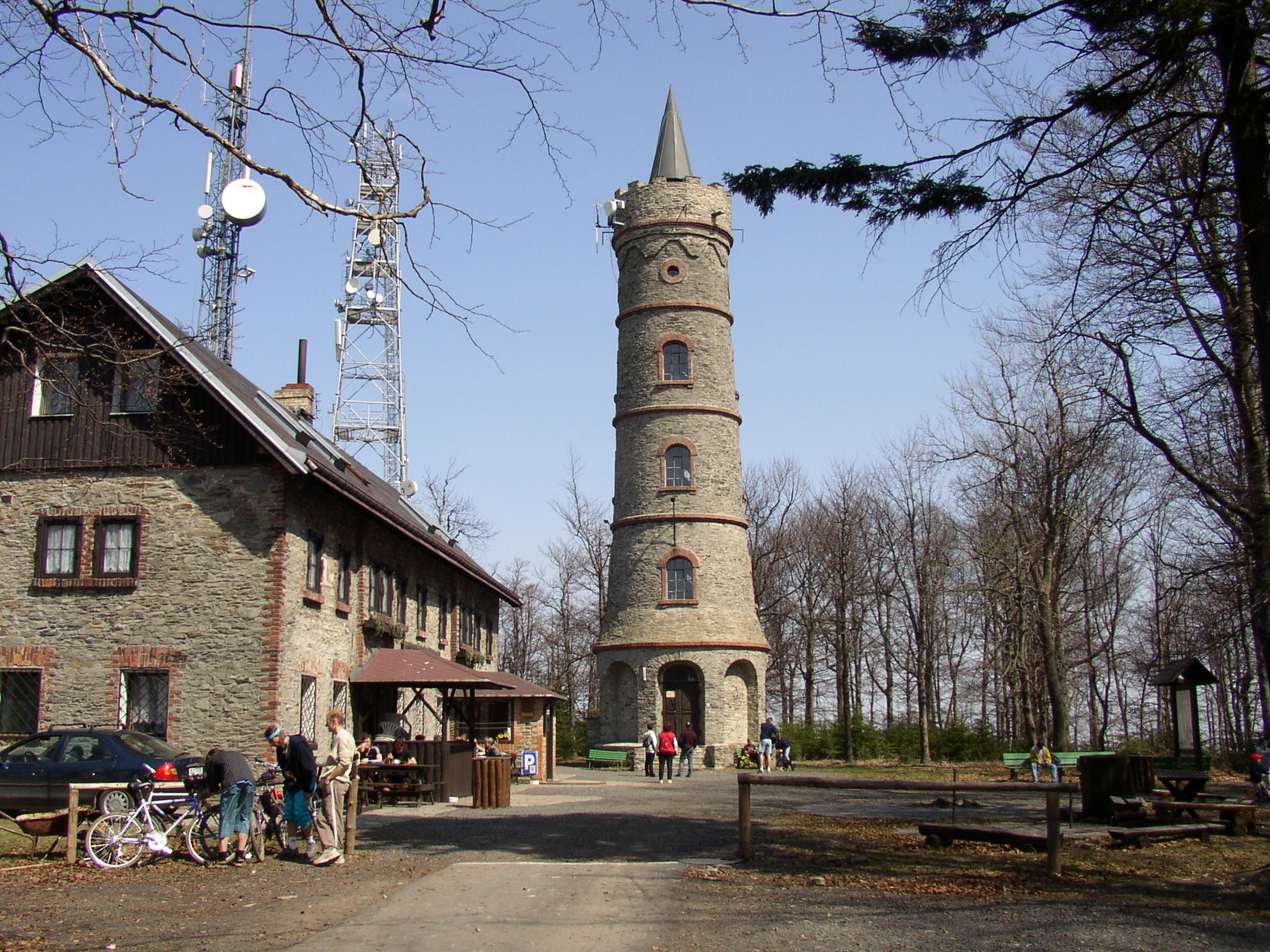 View-tower on Jedlová at Lusatian Mountains, Czech Republic.